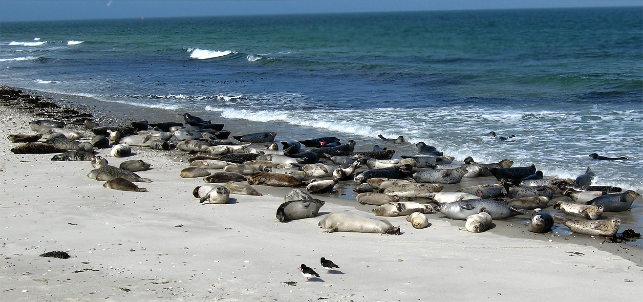 Common Seal